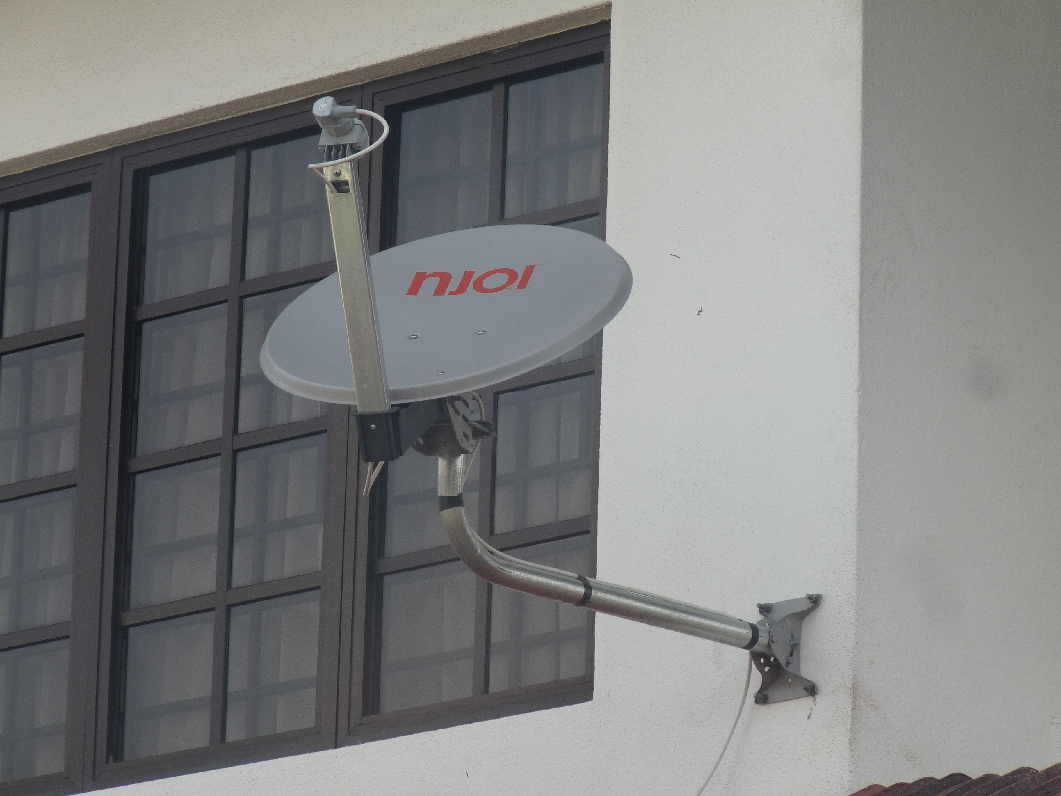 An installed NJOI satellite dish seen at Titiwangsa near Kuala Lumpur in September 2012. The design of the dish similar to Astro which is white in colour and has the Astro logo in it but with the NJOI logo added.